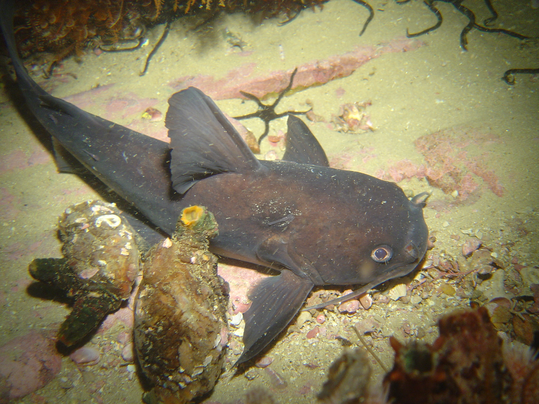 Glencairn, Cape Peninsula.